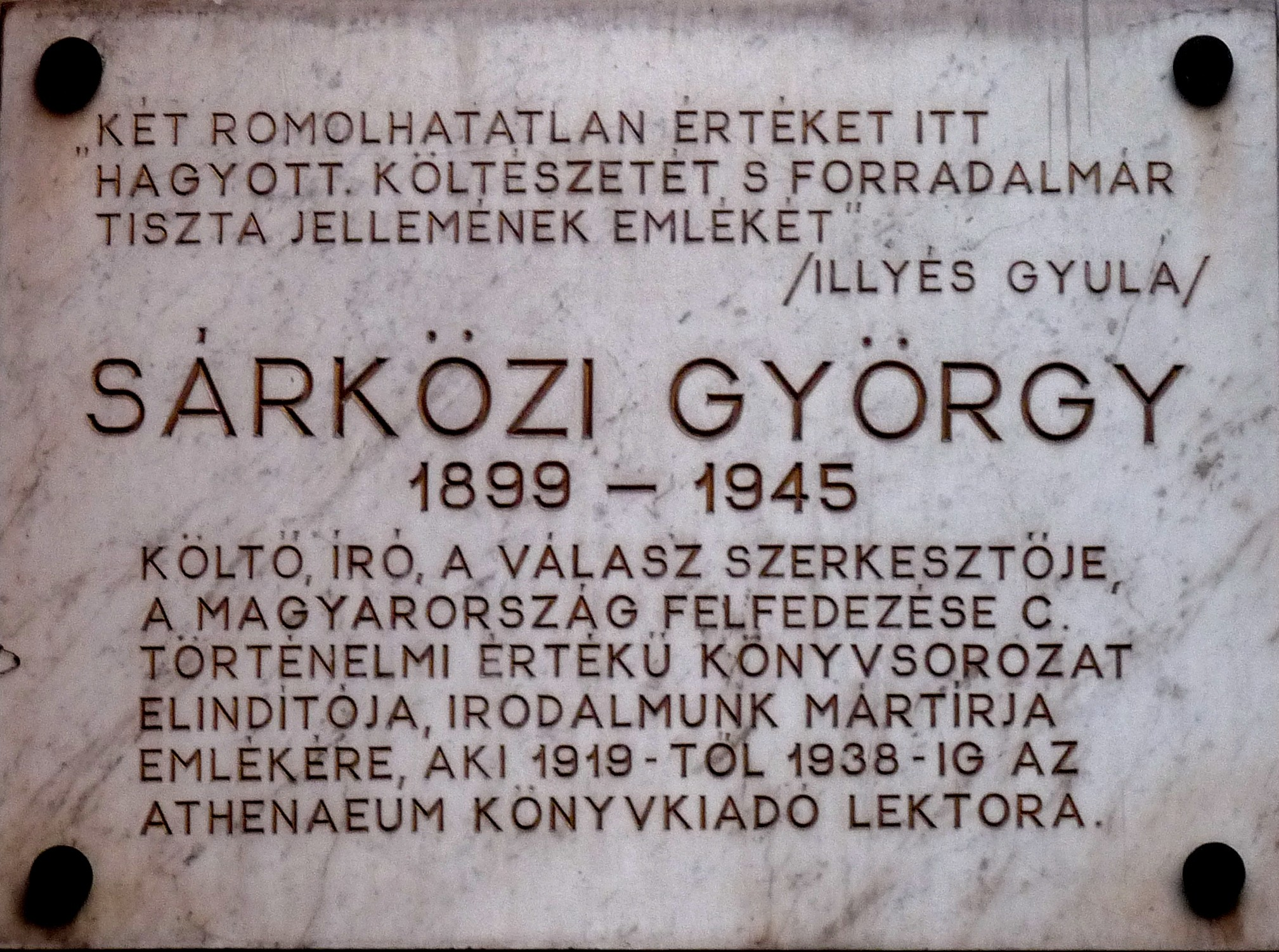 György Sárközi (poet) commemorative plaque in Budapest District VII, Erzsébet Boulevard No 7.